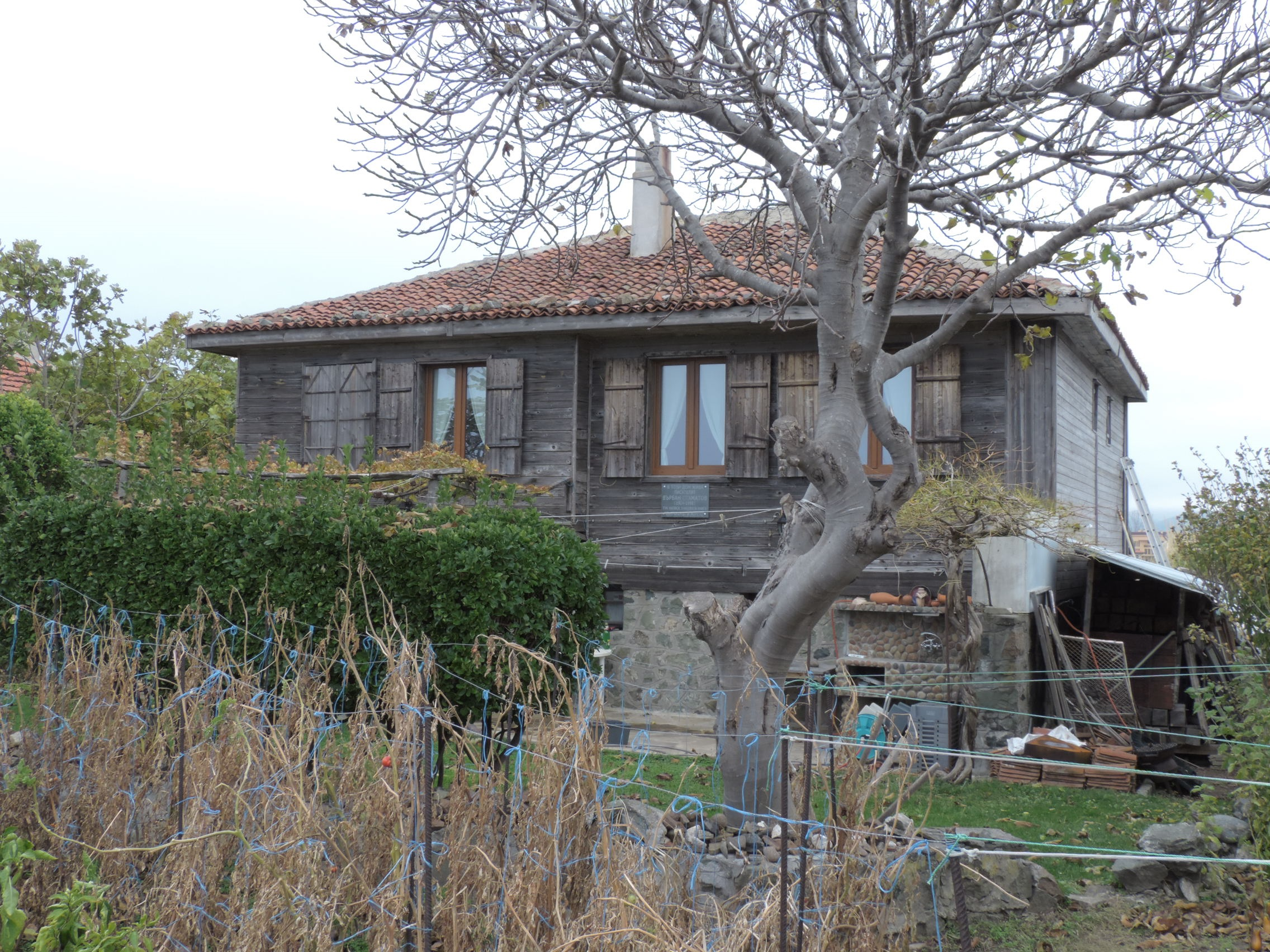 The town of Ahtopol: the house of the writer Varban Stamatov, in which he writes his novel "The Bulgarian and the sea"